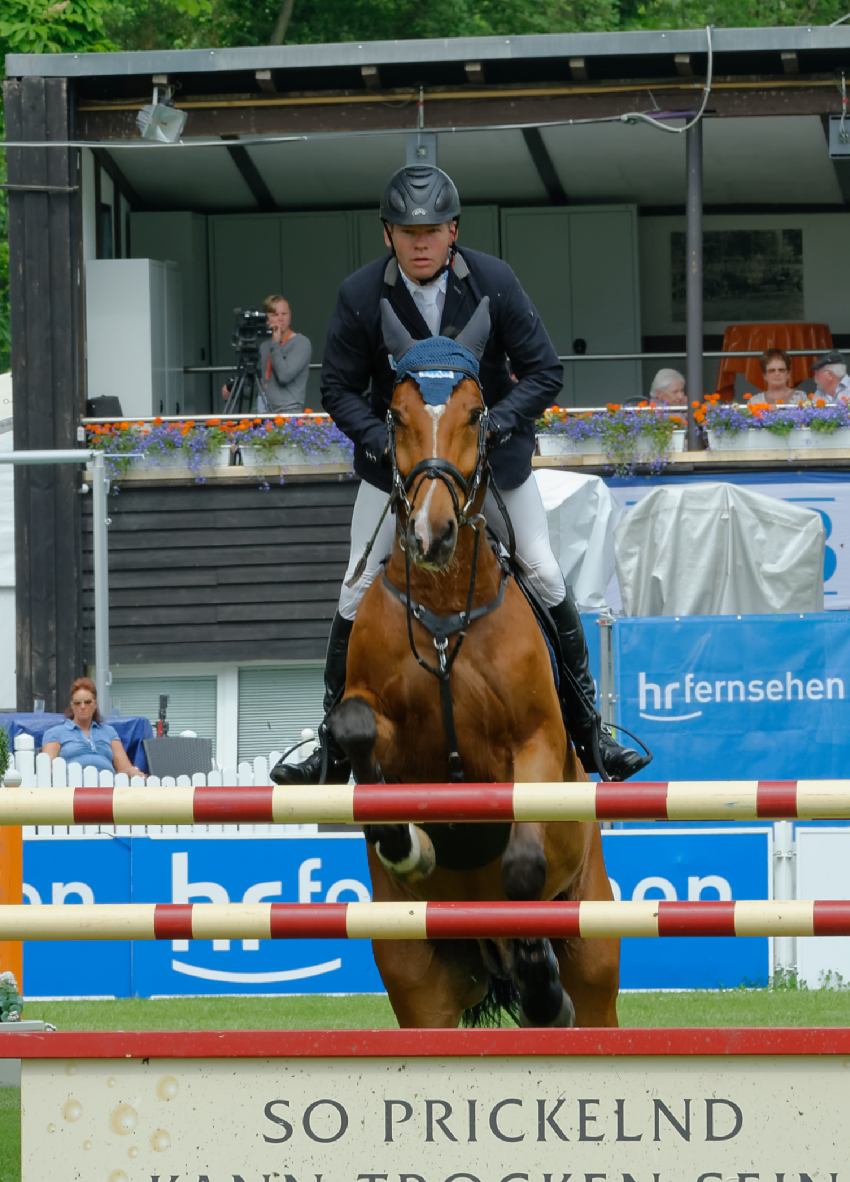 CSIYH* int. Springprüfung nach Strafpunkten und Zeit Internationales Pfingstturnier Wiesbaden 2015 The making of this document was supported by the Community-Budget of Wikimedia Germany.